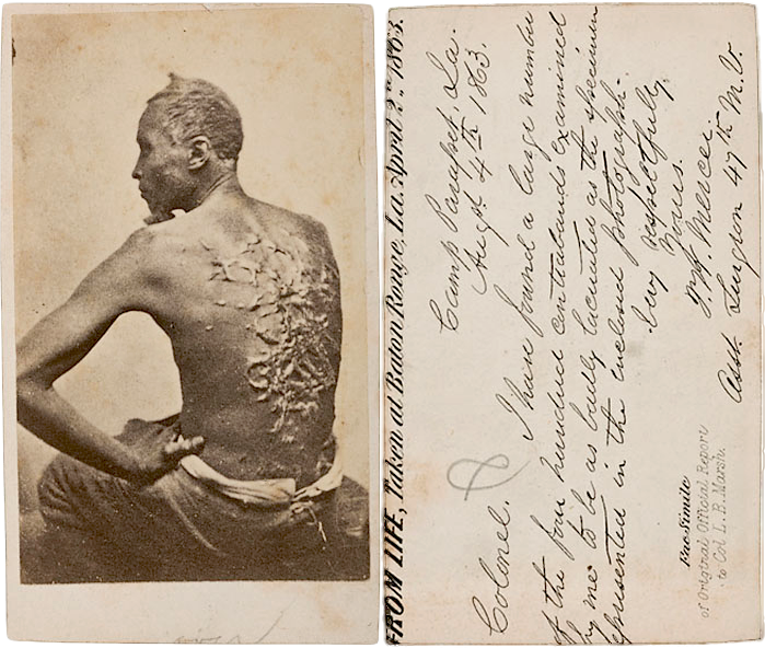 Carte de Visite portrait of Gordon. A facsimile printing of an original Official Report to Colonel L.B. Marsh on verso that reads "Camp Parapet, LA, Aug. 4, 1863. I have found a large number of the four hundred contrabands examined by me to be as badly lacerated as the specimen represented in the enclosed photograph, signed F.W. Mercer, Asst. Surgeon, 47th M.V."